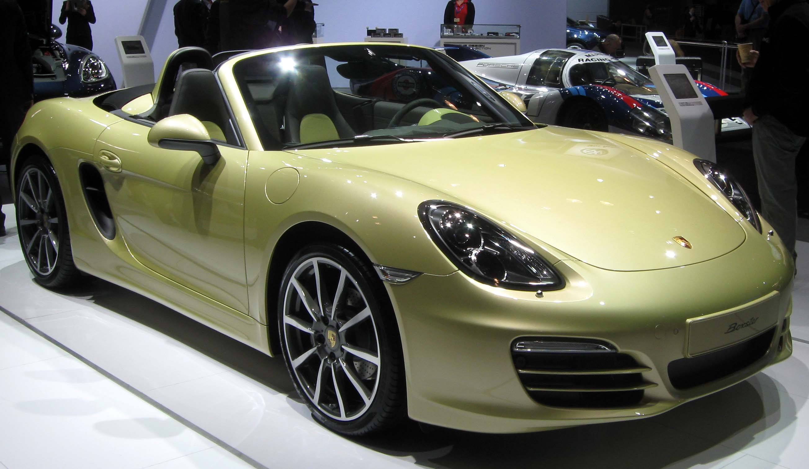 2013 Porsche Boxster photographed at the 2012 New York International Auto Show.